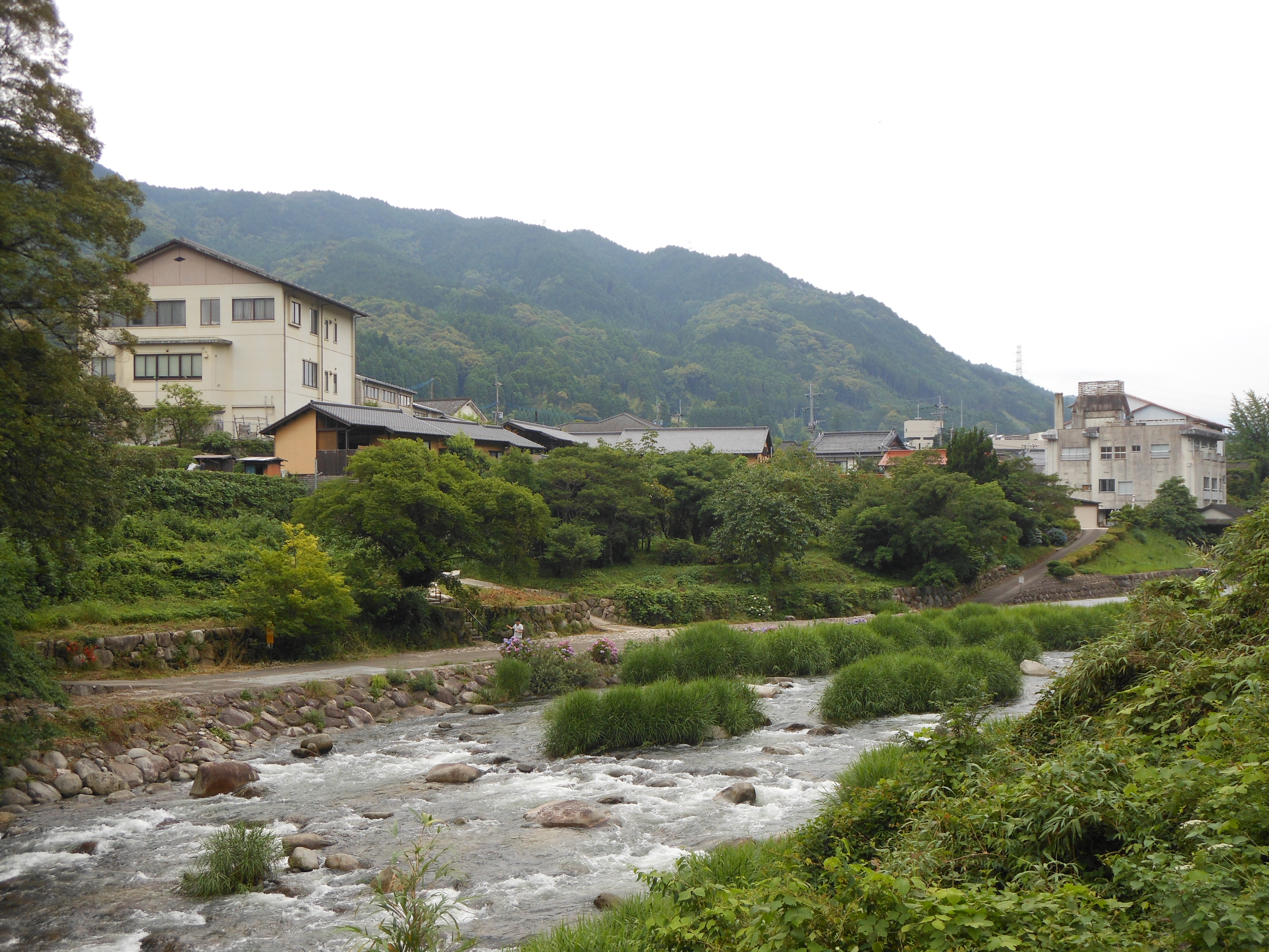 View of Furuyu Spa, Fuji, Saga City.